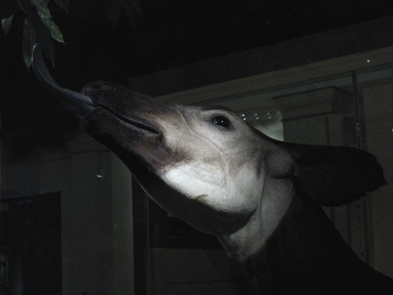 Closeup of the head of an okapi specimen at the National Museum of Natural History, Washington, DC.